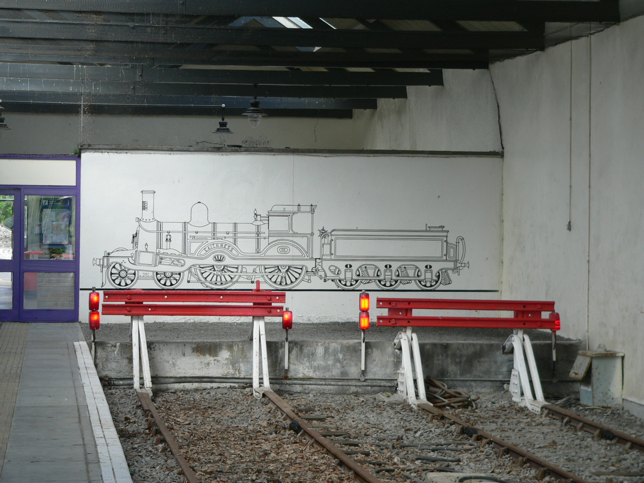 Thurso railway station - the most northerly station on the British rail network and the end of the Far North line. I don't know whether this represents any particular 4-4-0 steam locomotive called Caithness or if it is just symbolic of a bygone age and, presumably, bygone grandure for this northern outpost. Additional Info: Highland Railway No. 68 Caithness was built by Dübs and Company in 1874.